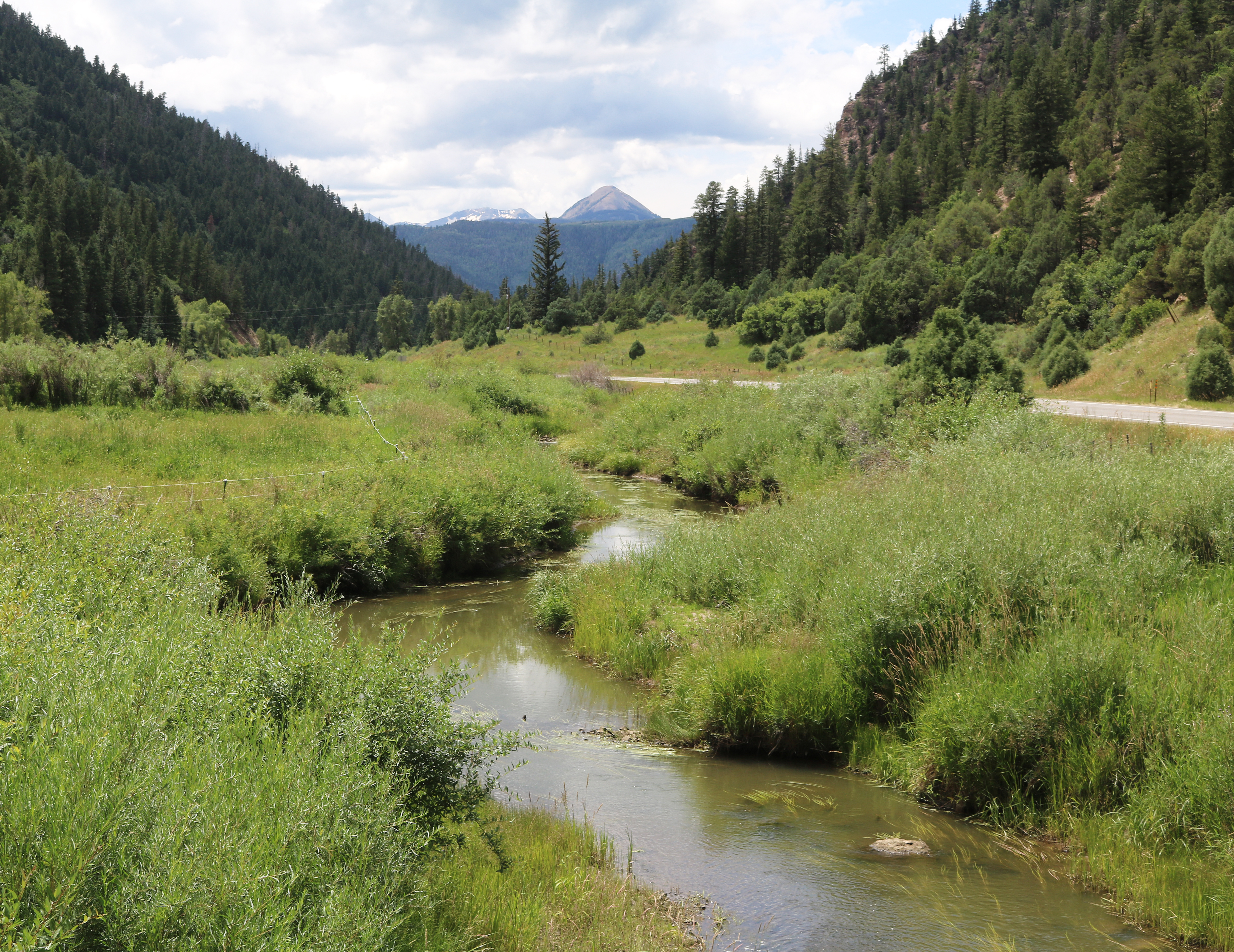 Leopard Creek near the intersection of Colorado State Highway 62 and 56V Road in San Miguel County, Colorado.